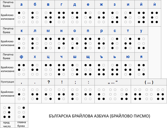 The Bulgarian Braille alphabet.